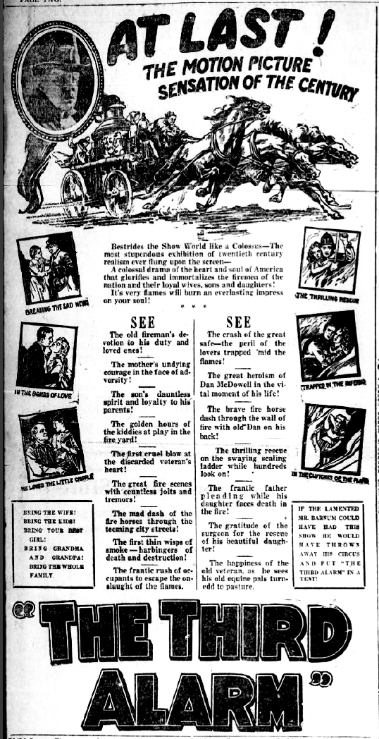 Newspaper theater advertisement for the the American drama film The Third Alarm (1922), in the Feb. 17, 1923 The Times and Democrat.